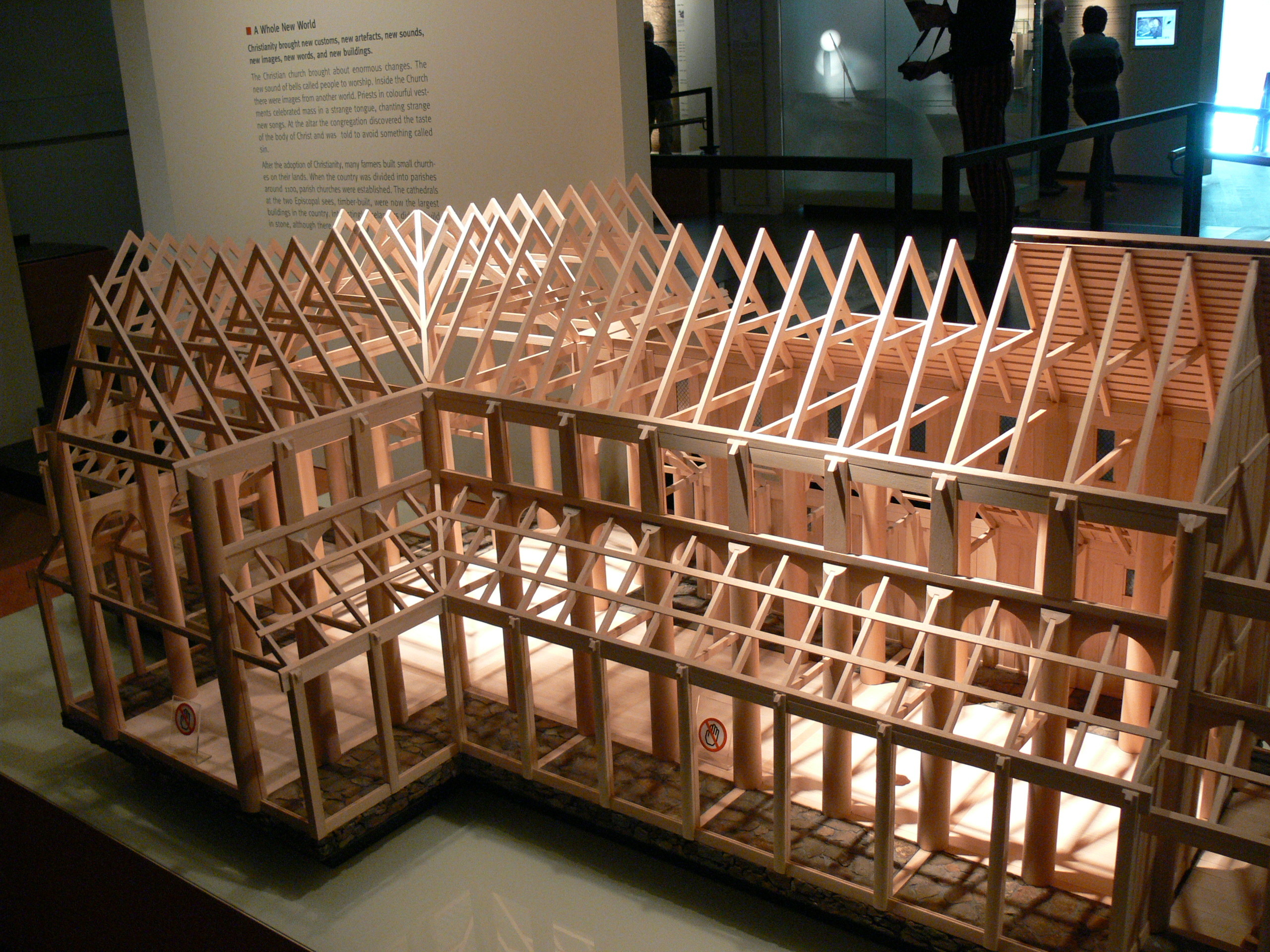 National Museum of Iceland, Reykjavik. Reconstruction of a medieval Icelandic cathedral of stave construction.